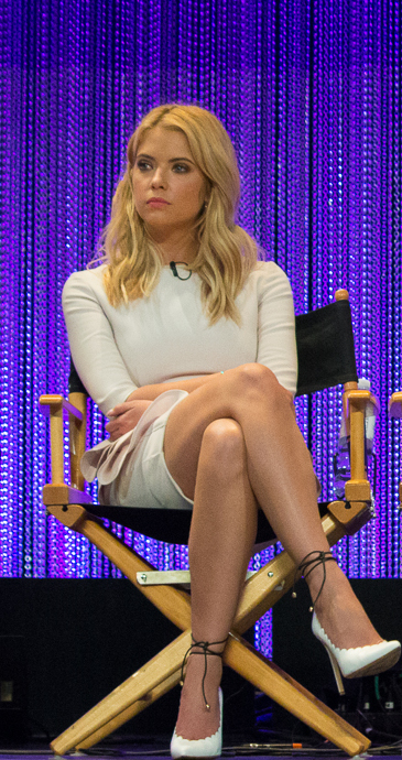 The core cast of "Pretty Little Liars" at The Paley Center For Media's PaleyFest 2014 Honoring "Pretty Little Liars". From left: Troian Bellisario, Ashley Benson, Lucy Hale, Shay Mitchell, and Sasha Pieterse.